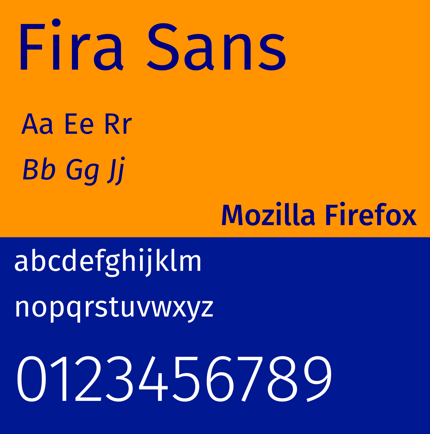 Fira Sans font specimen